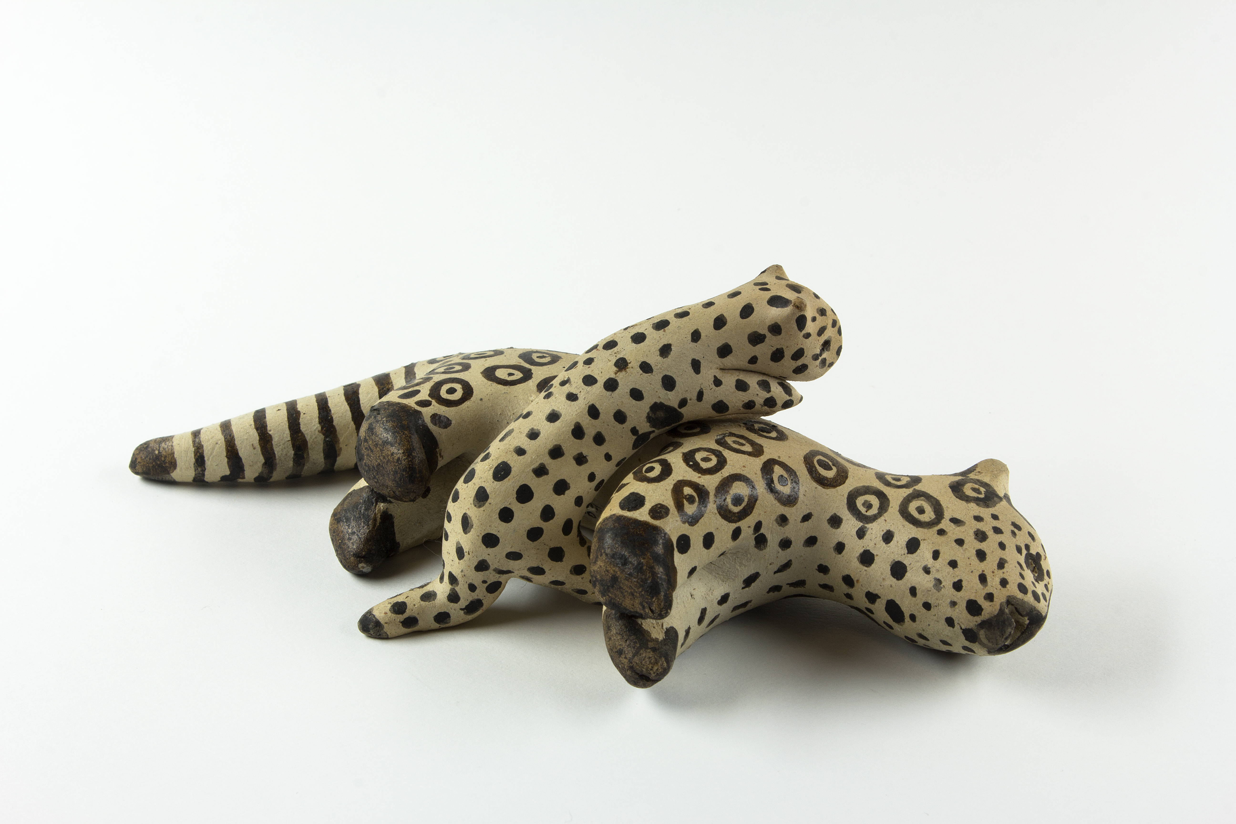 jaguar and her young size : 4,1 x 4,5 x 7,0 cm material : clay technique : ceramic